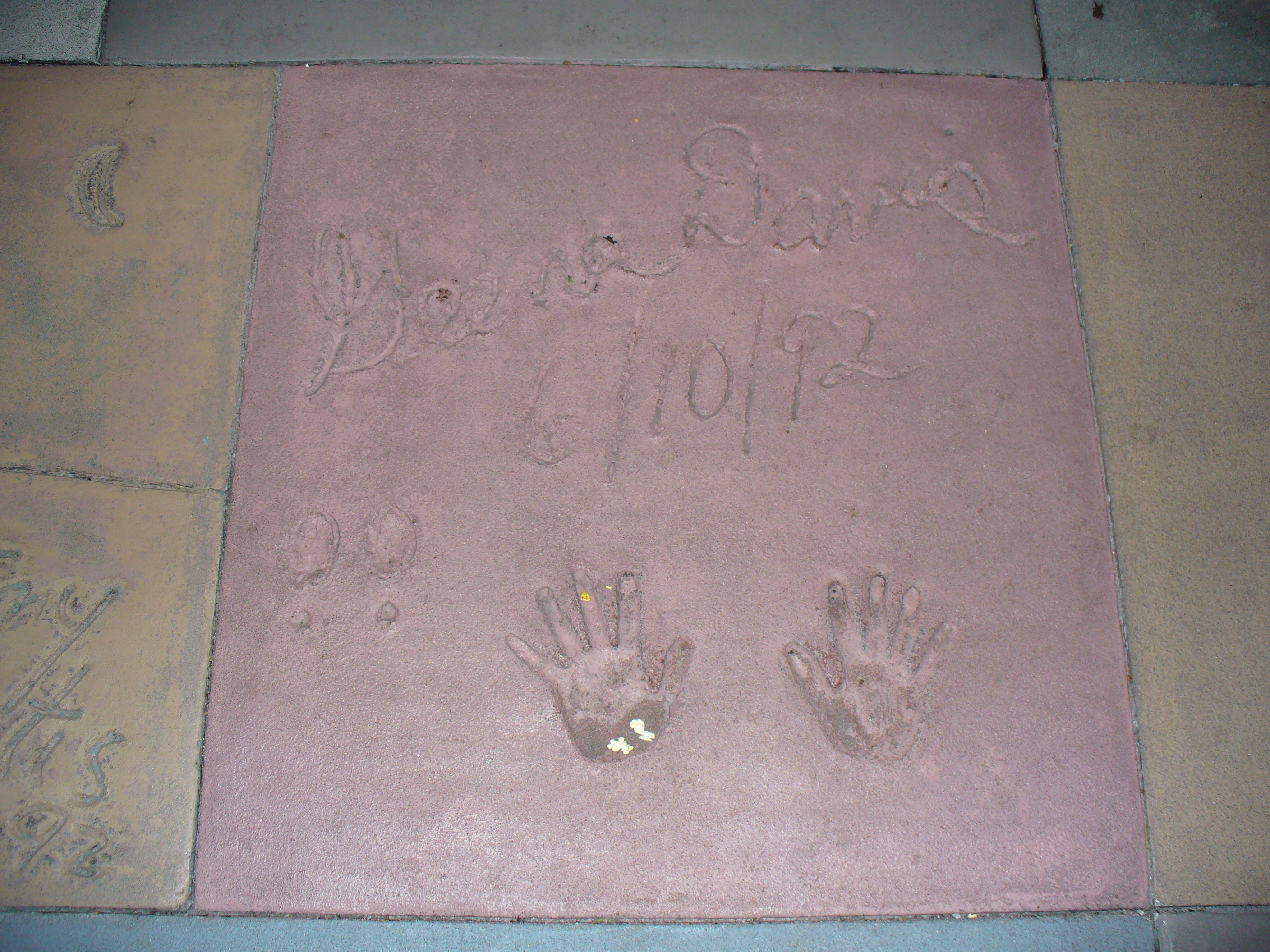 The handprints of Geena Davis in front of Hollywood Hills Amphitheater at Walt Disney World's Disney's Hollywood Studios theme park